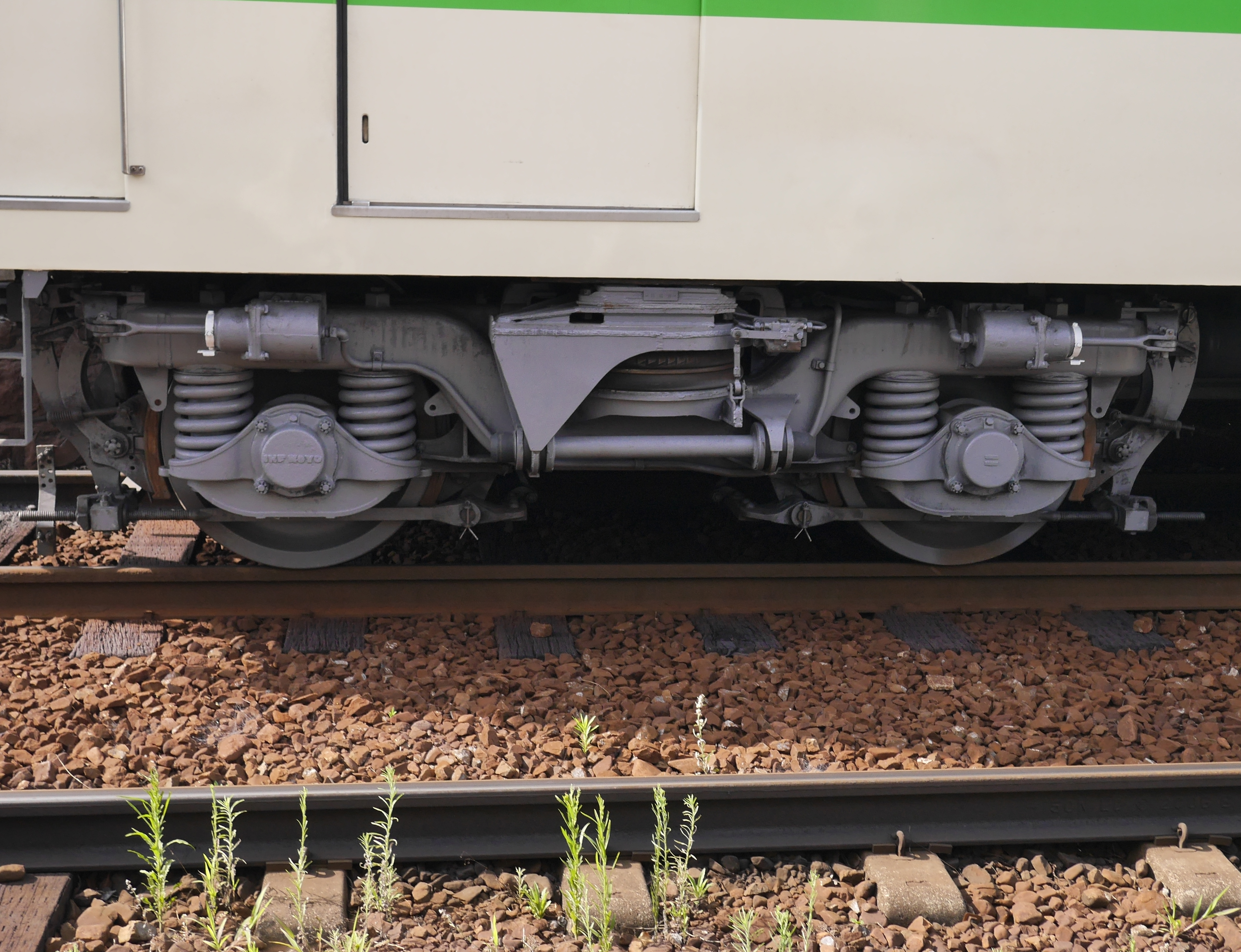 KS-70 bogie truck on Eizan railway Deo 721